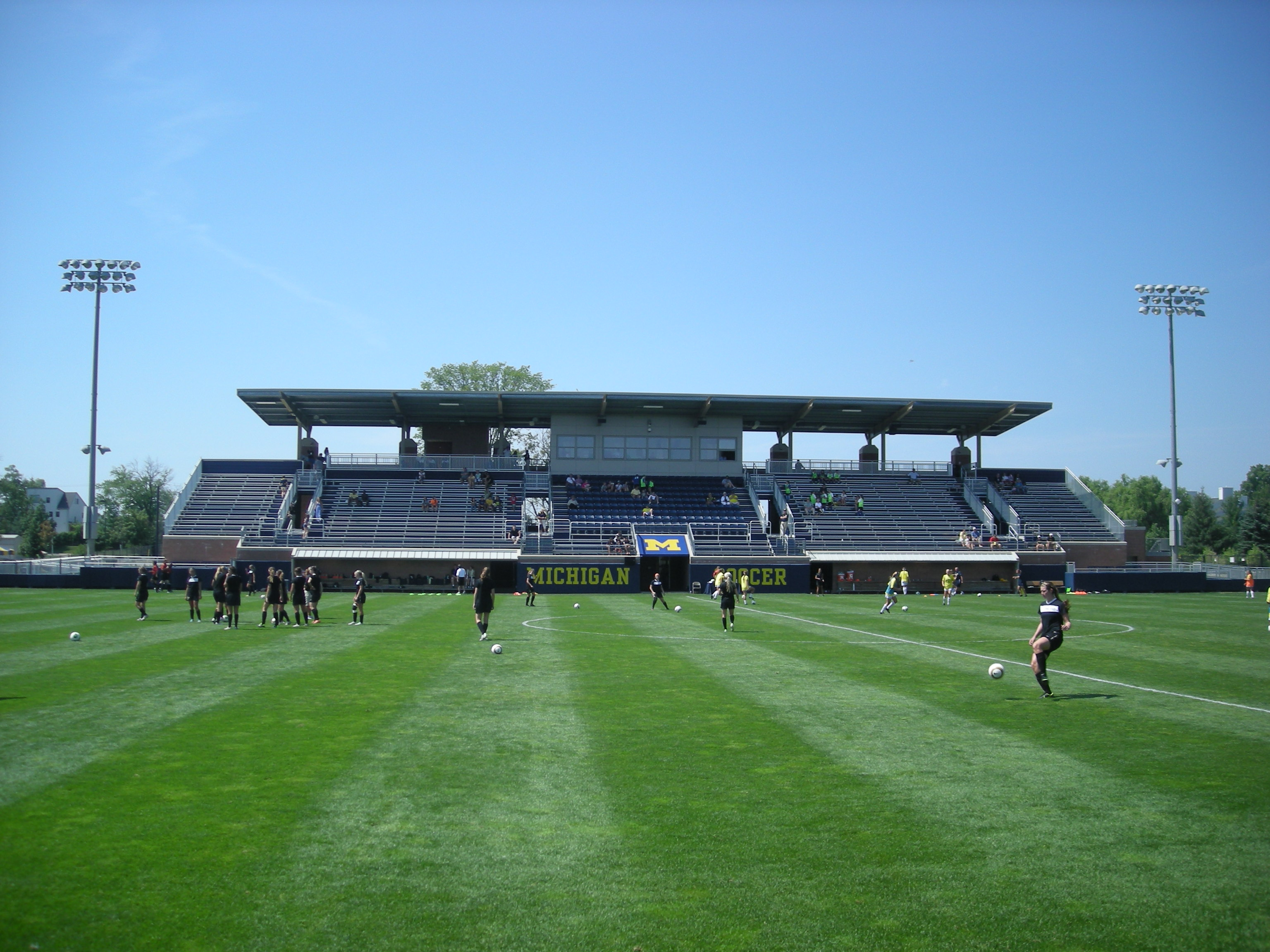 Pre-game warm-ups before the Oakland Golden Grizzlies vs. Michigan Wolverines women's soccer game at the U-M Soccer Stadium in Ann Arbor, Michigan (United States). Michigan won 6–1.